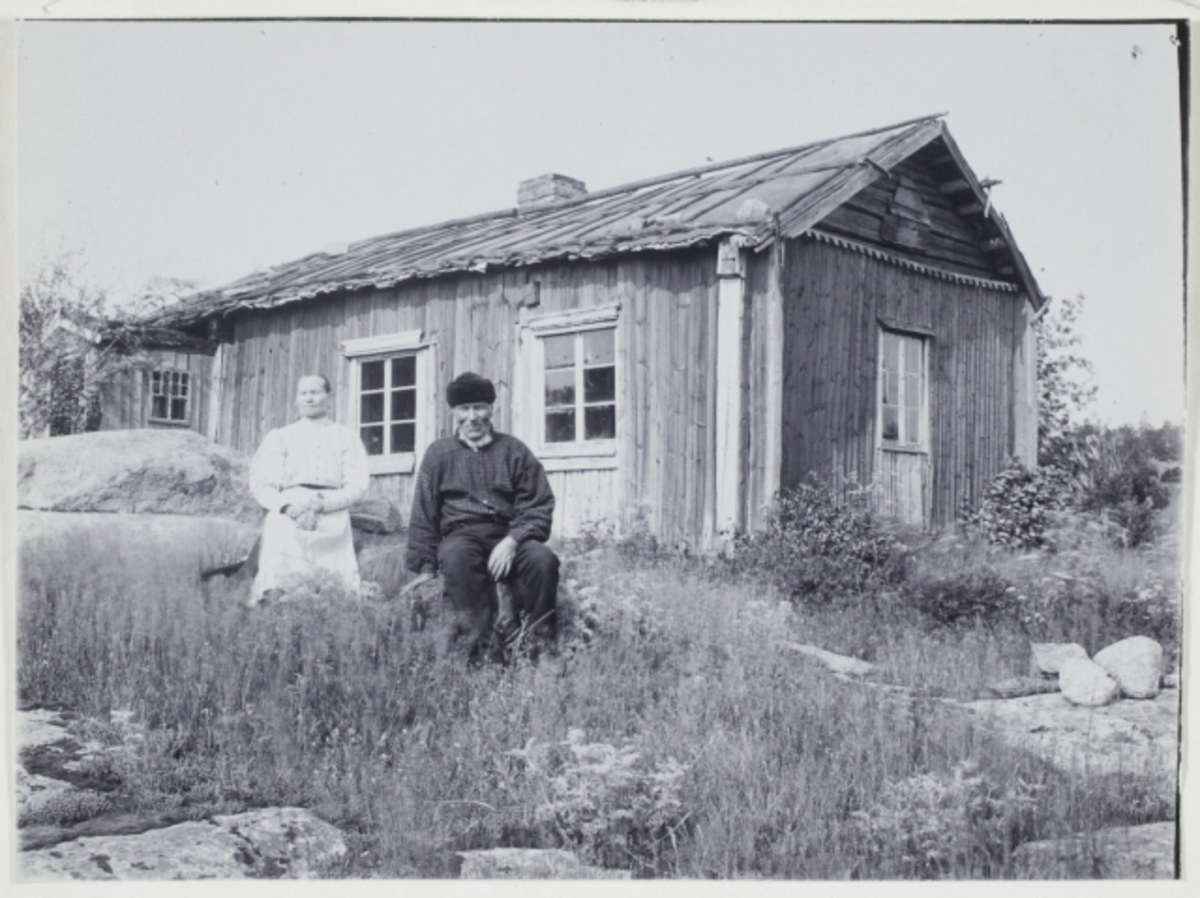 Kaltsaari (Kalsor) in Velkua Finland.